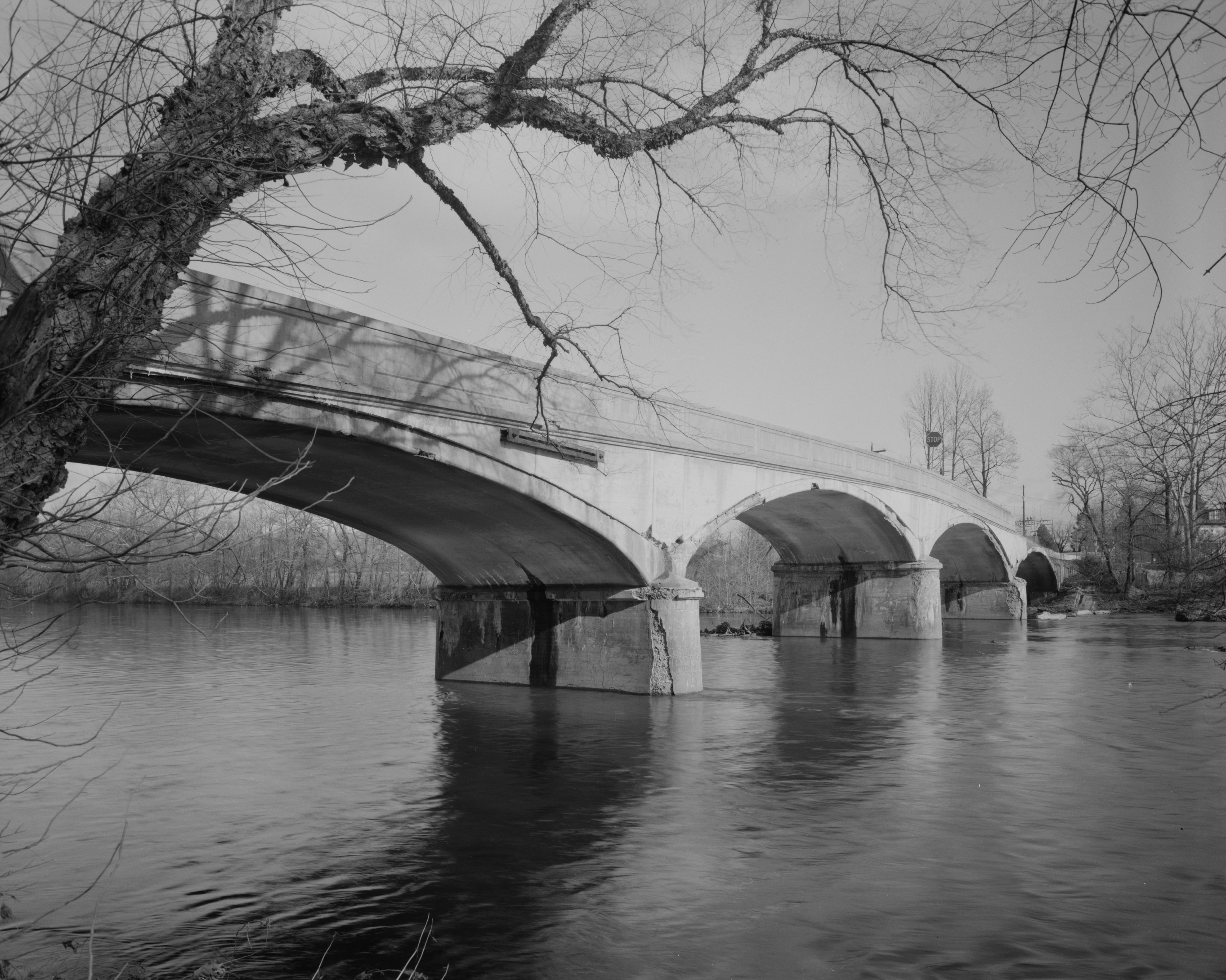 Dauberville Bridge spanning the Schuykill River — on Belleman's Church Road, Dauberville vicinity (Berks County, Pennsylvania)